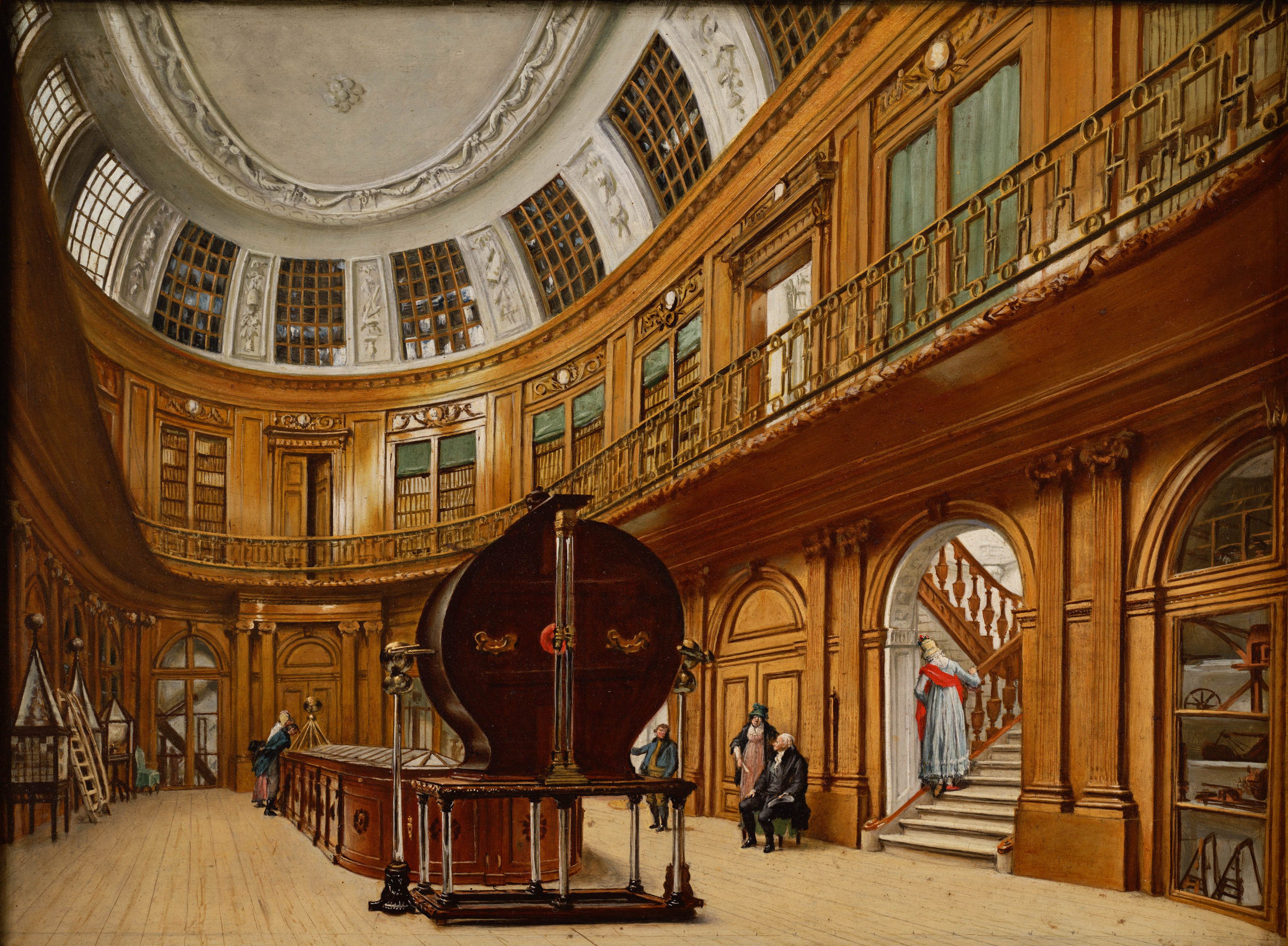 Painting of the Oval Room of the Teylers Museum in Haarlem.